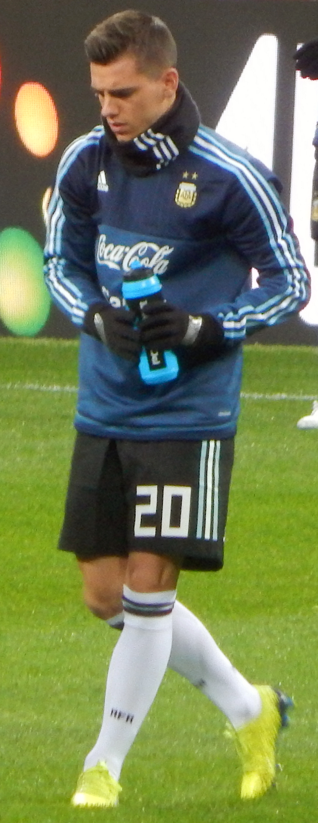 A friendly match between Russia and Argentina in Moscow, Luzhniki stadium, on November 11, 2017.